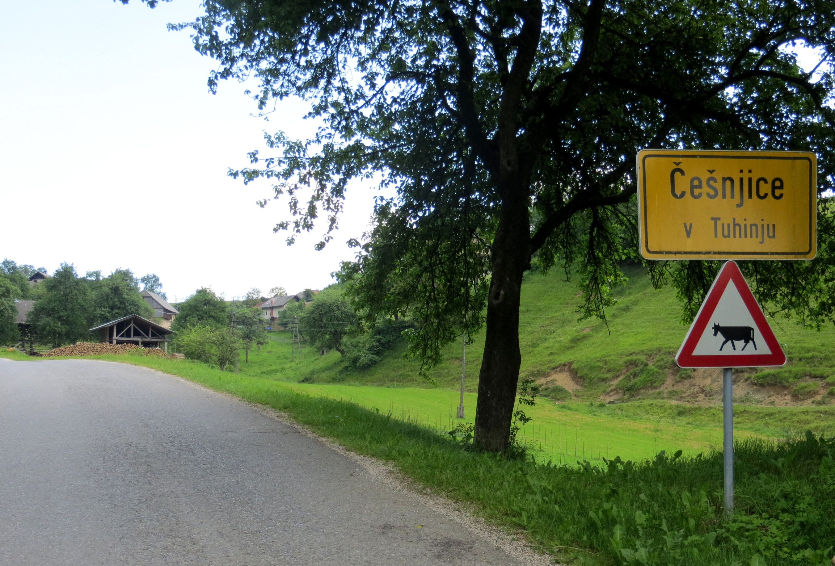 Češnjice v Tuhinju, Municipality of Kamnik, Slovenia